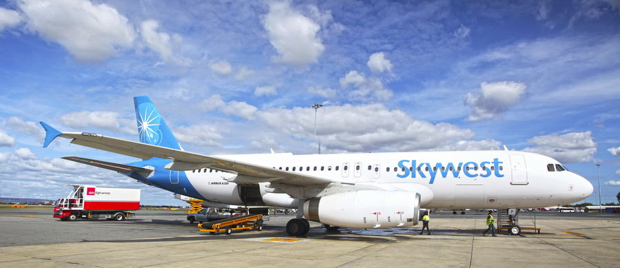 Skywest A320-200 in Perth Domestic Airport